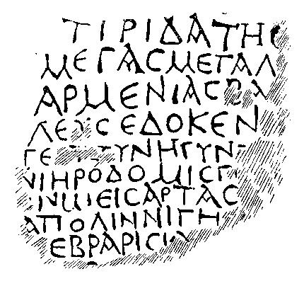 Greek inscription of Emperor Tiridates in Aparan, 4th century